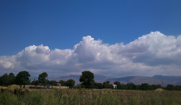 Daneh kashefeieh village-Neyshabour